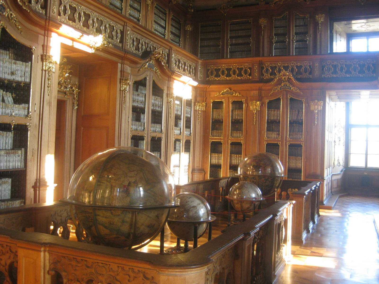 Library